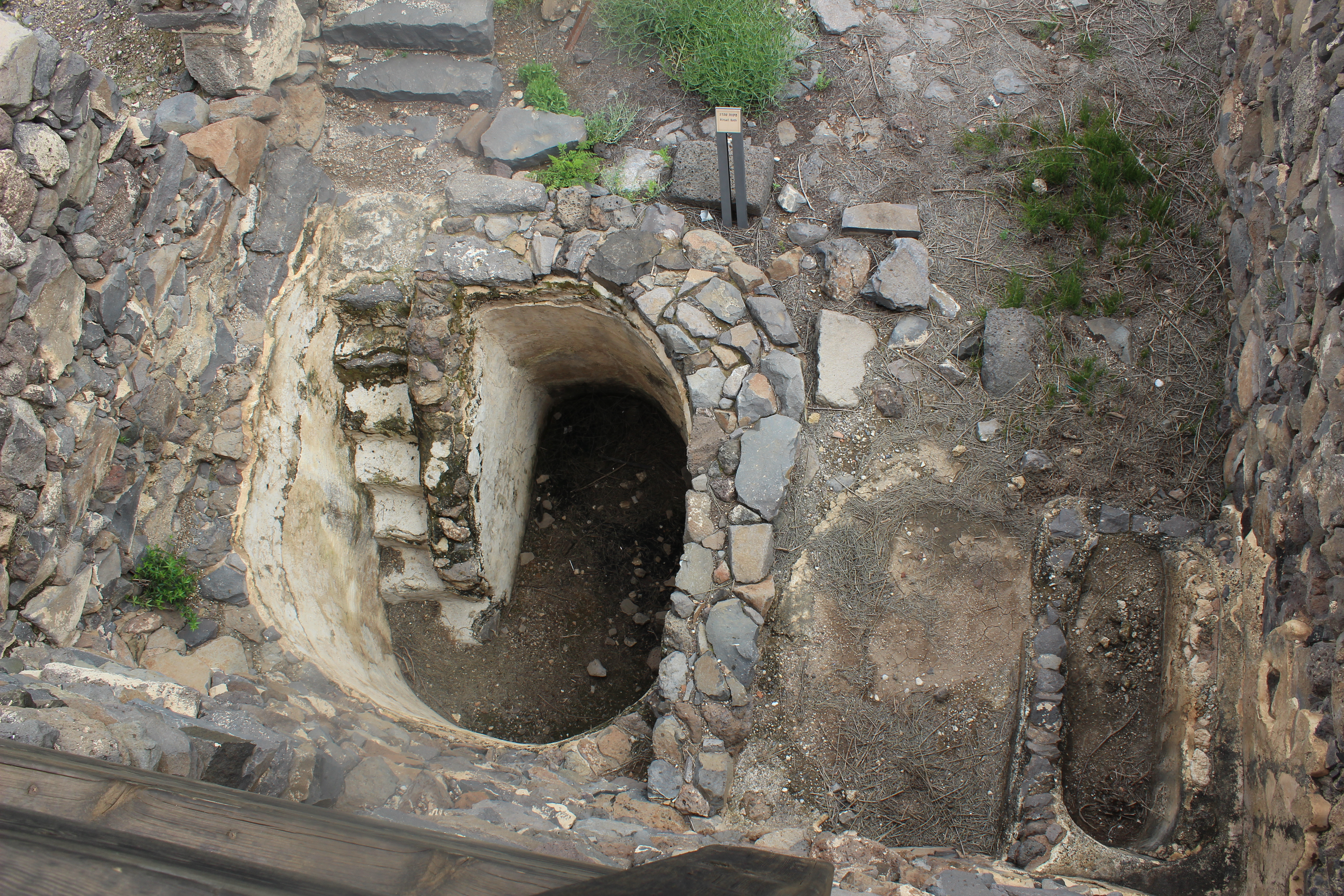 Staircase found in the Gamla ruin (Golan Heights)